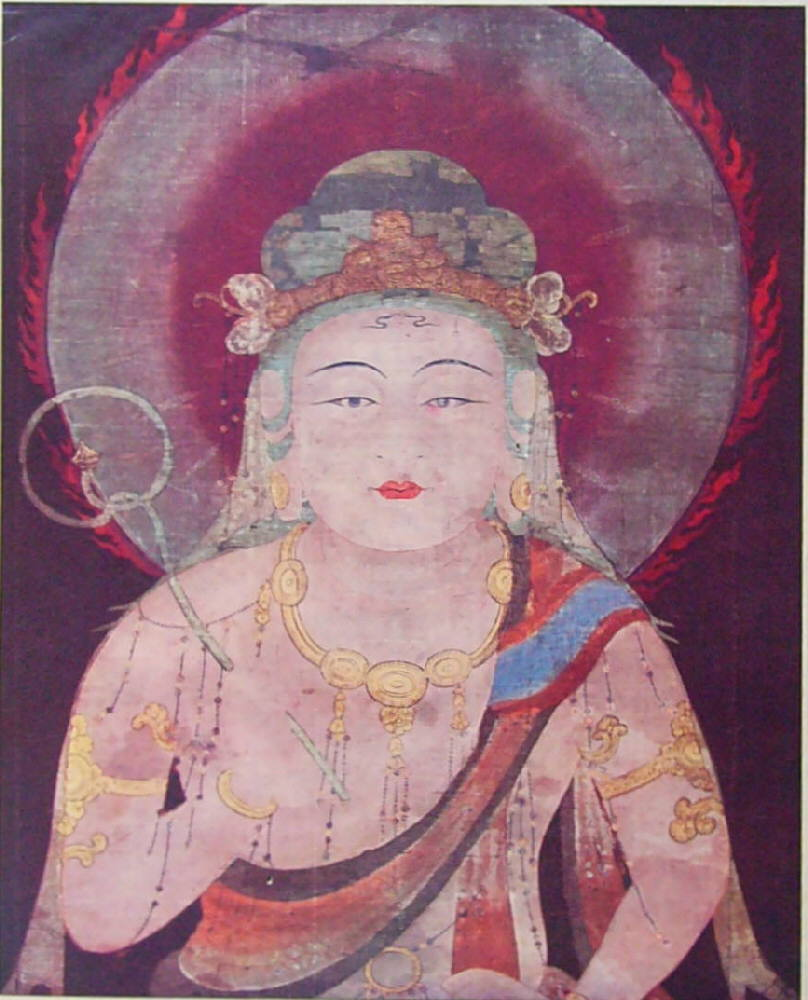 Sui Ten (Varuna) detail, one of Tweleve devas paintings set, Hanging scroll, colour on silk, whole size 144x127cm ,Kyoto National Museum, Kyoto, Japan, ACE1127